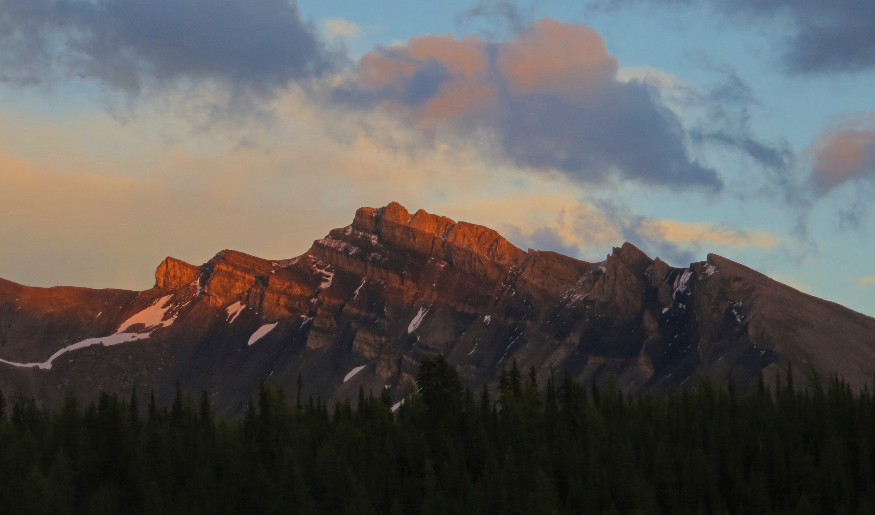 Wonder Peak seen from Mount Assiniboine Provincial Park in Canada, but it is also on the Continental Divide so part of it is in Banff Park.